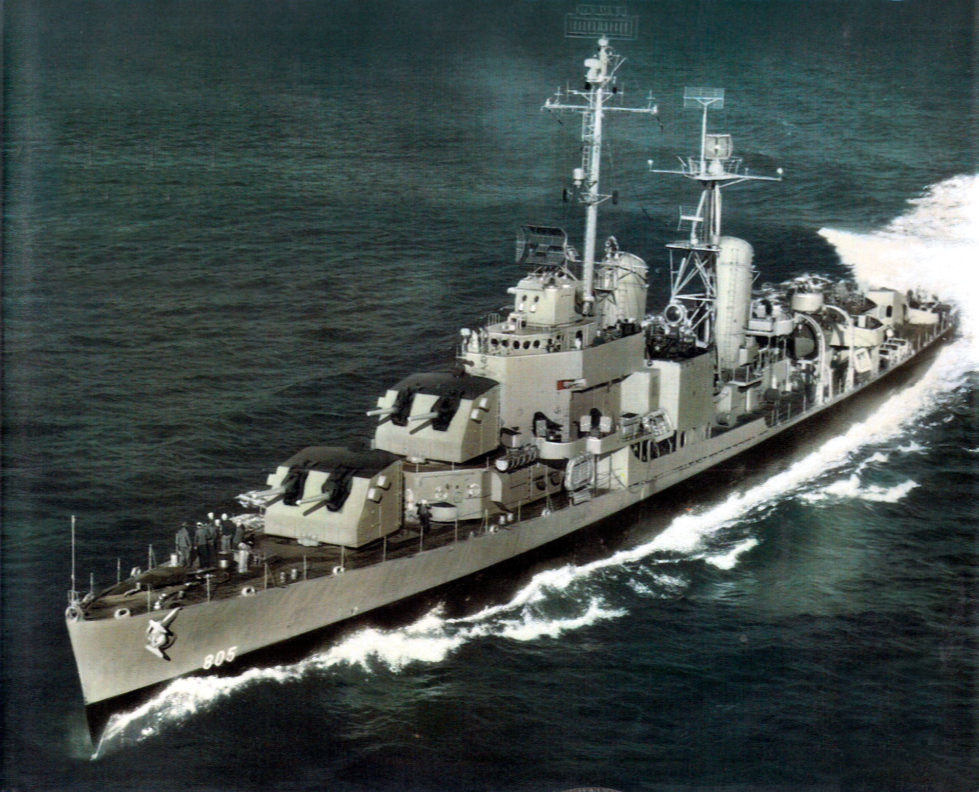 The U.S. Navy radar picket destroyer USS Chevalier (DD-805) underway off Norfolk, Virginia (USA), on 24 May 1945.